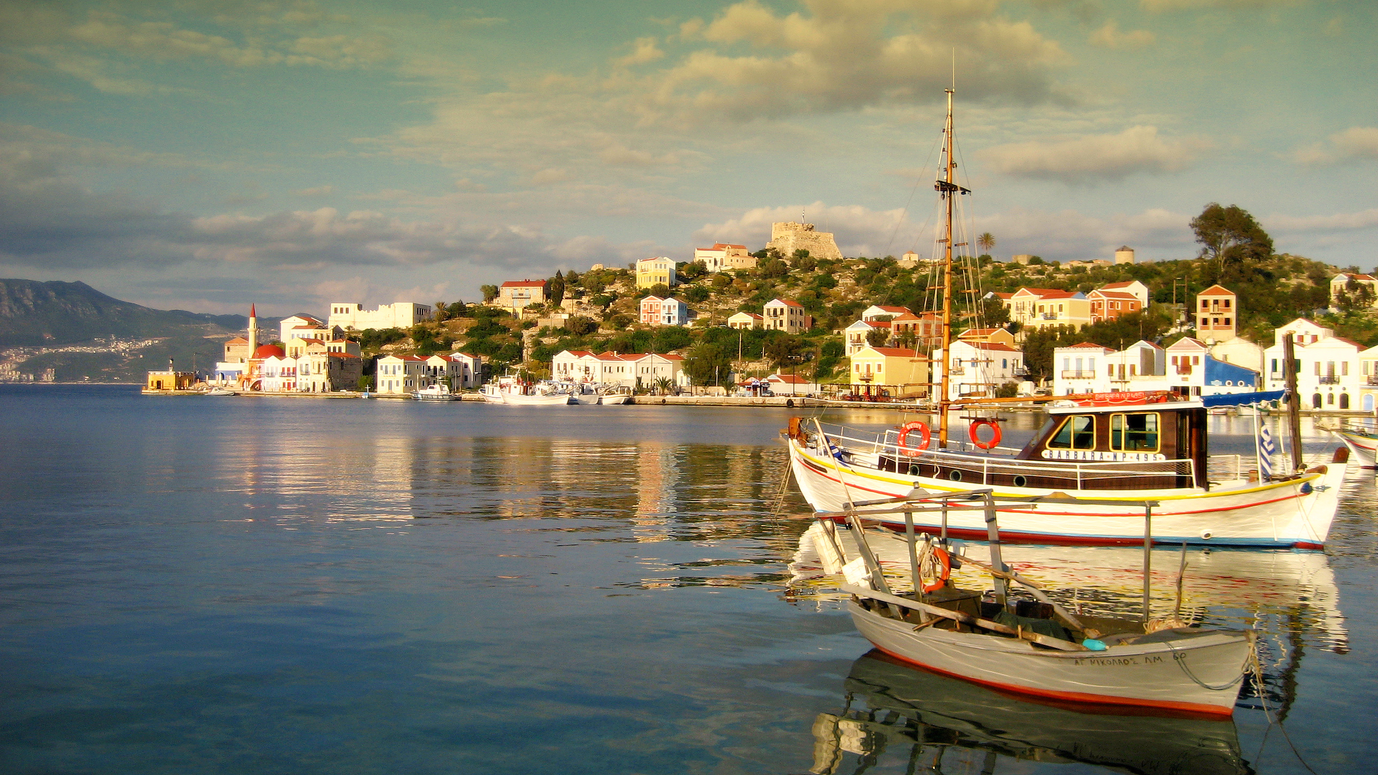 The Port of Castelorizo Island, Dodecanese, Greece